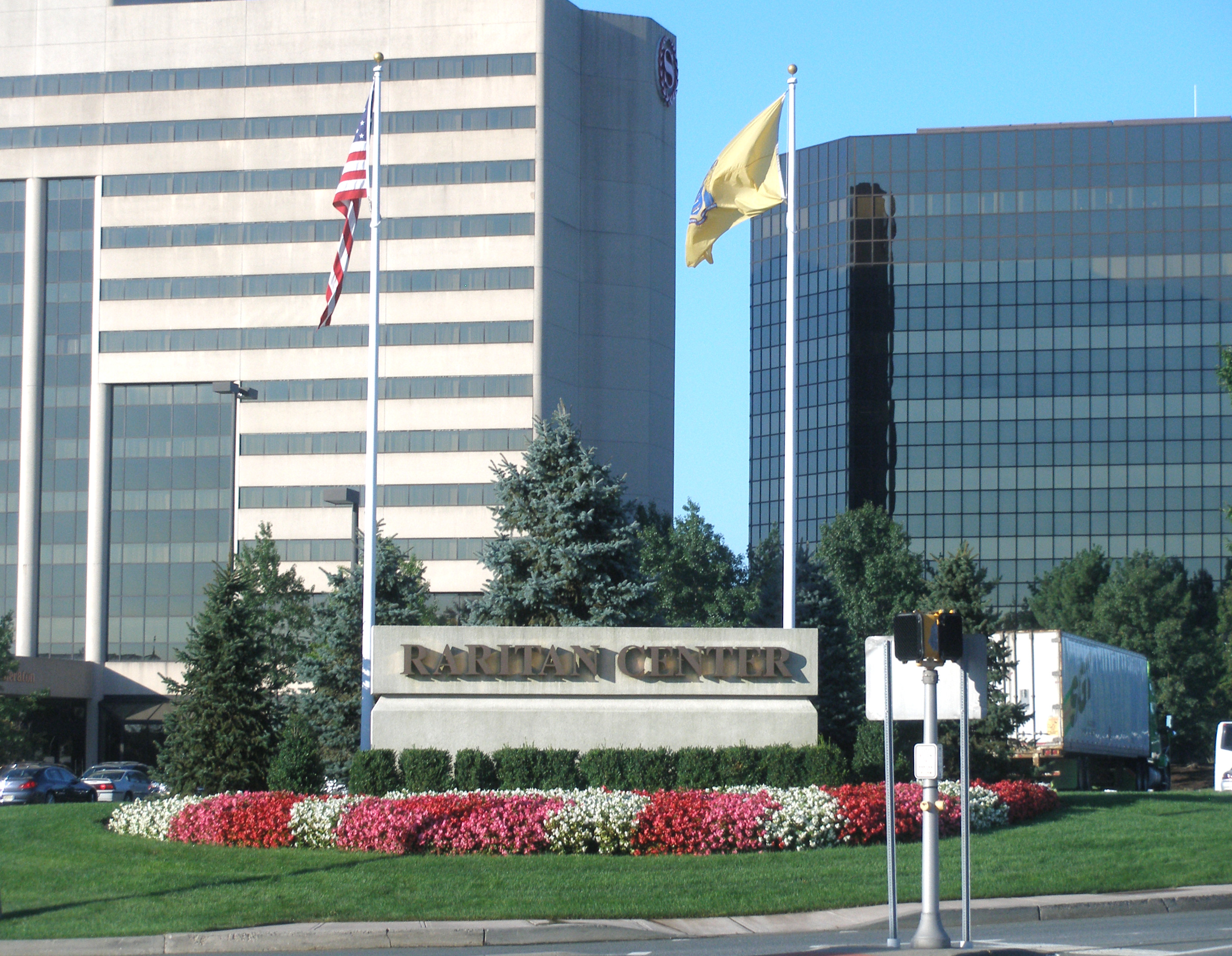 An elaborate gateway sign at the entrance to the Raritan Center business park in Edison. Photographed by user Coolcaesar on September 1, 2007.